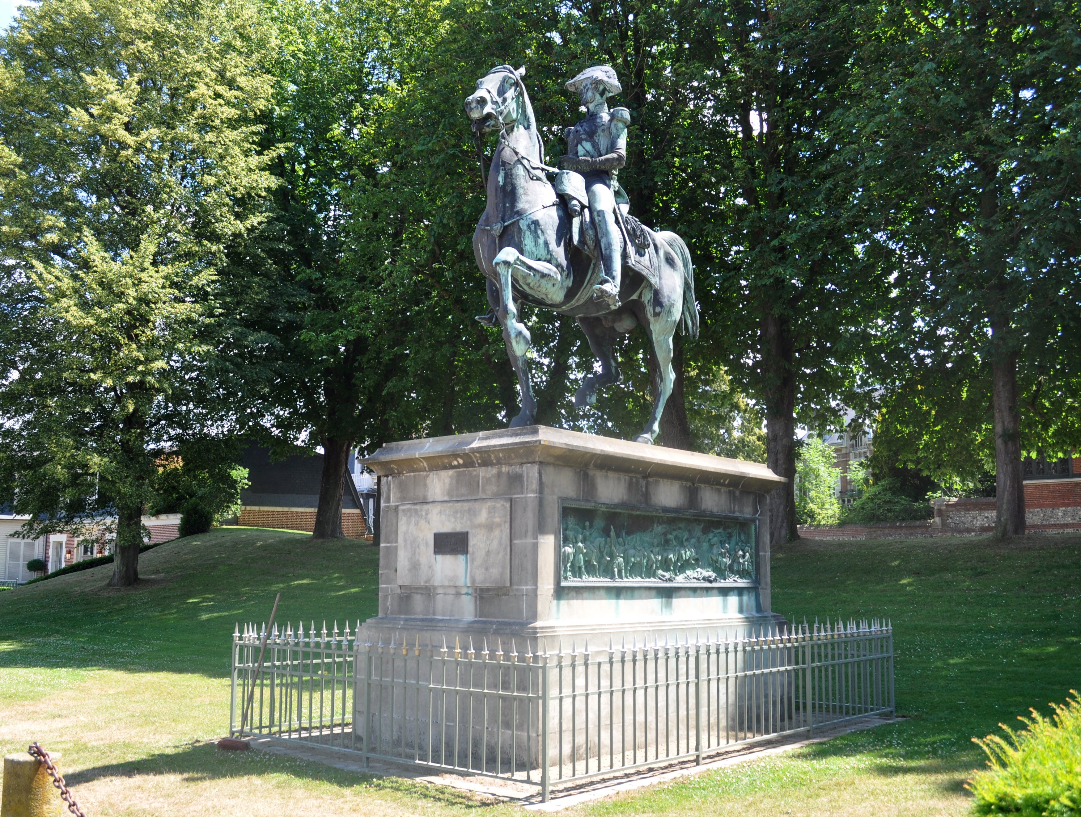 Monument to the Duke of Orléans by Carlo Marocchetti, around 1844. It used to be at the Louvre till 1848 when it moved to Versailles and was placed later on here in Eu near the castle. An other version can be found in Neuilly-sur-Seine, which used to stand in Algiers till 1962.